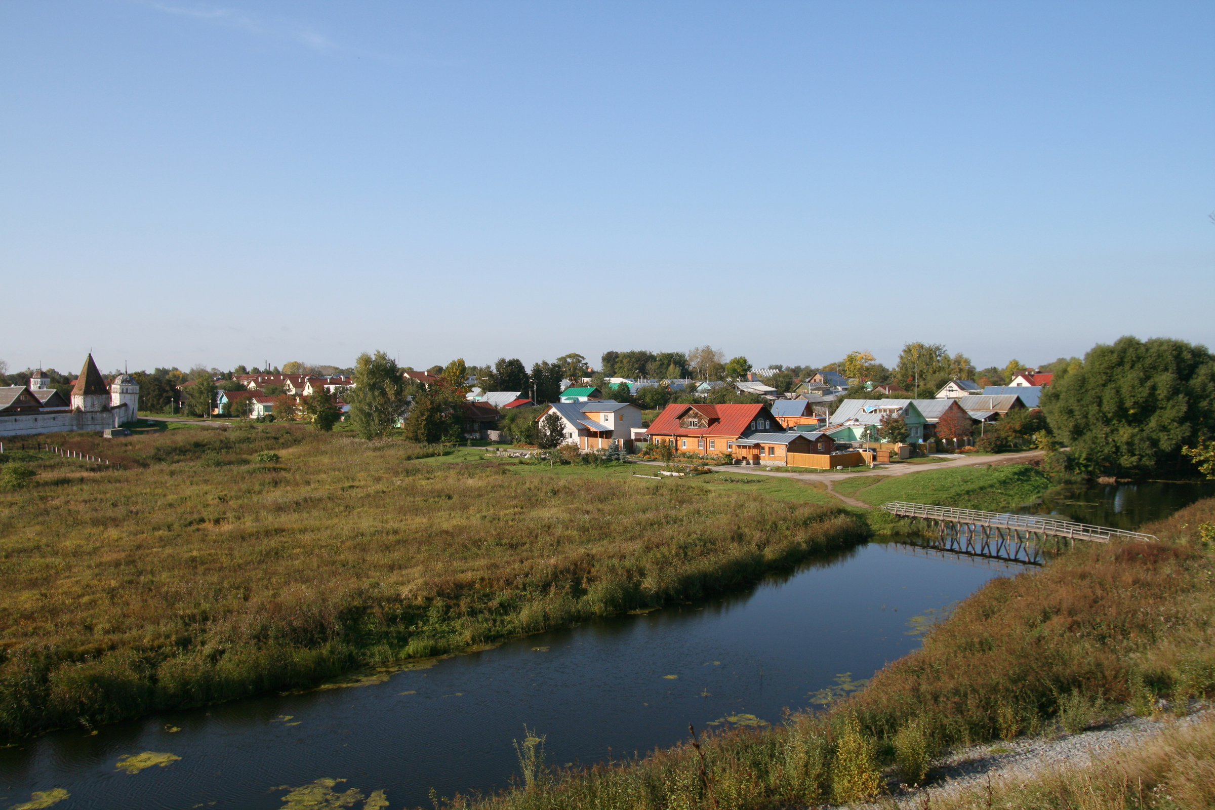 Korovniki, region of Suzdal (Russia)